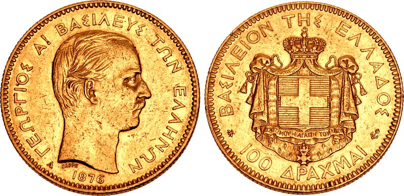 100 gold drachmae, 1876, George I, Greece